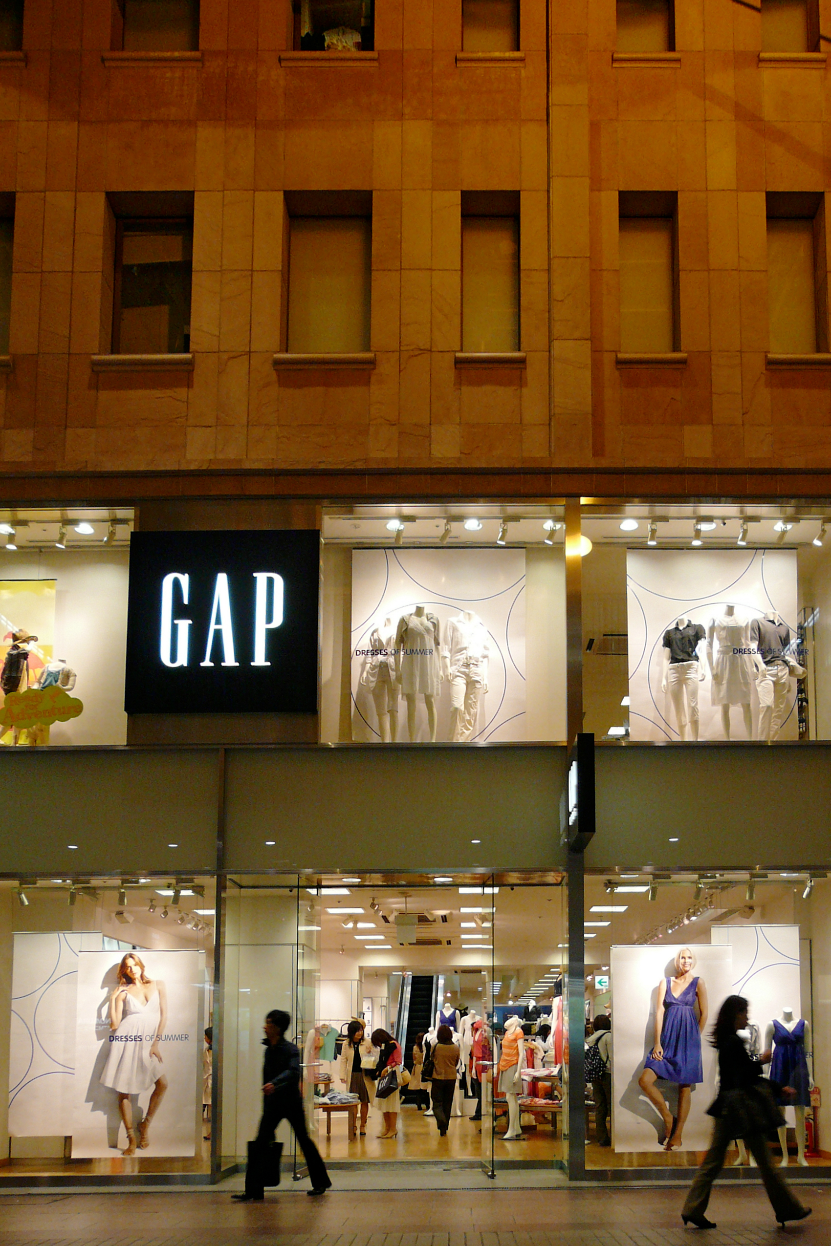 Sannomiya Center Street in Kobe, Hyogo prefecture, Japan